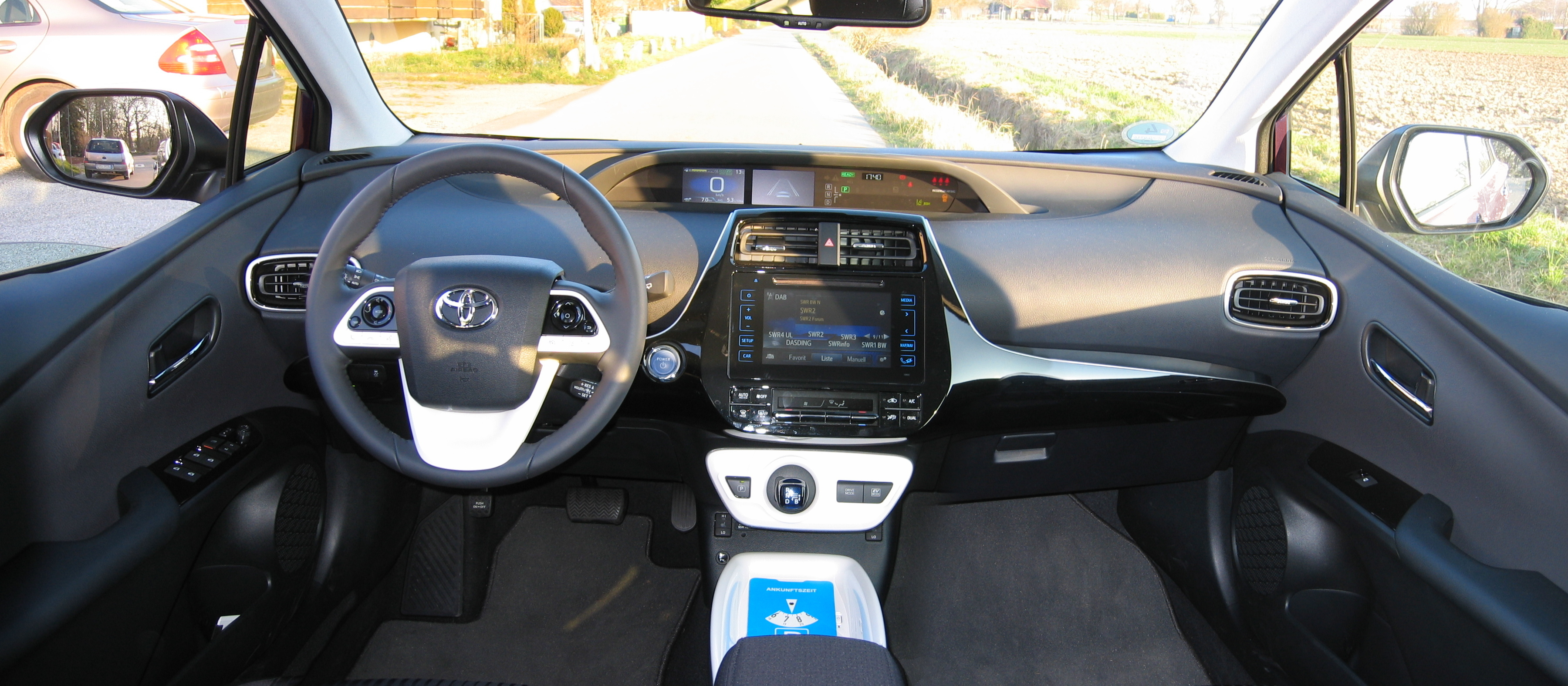 Toyota Prius 4 Dashboard